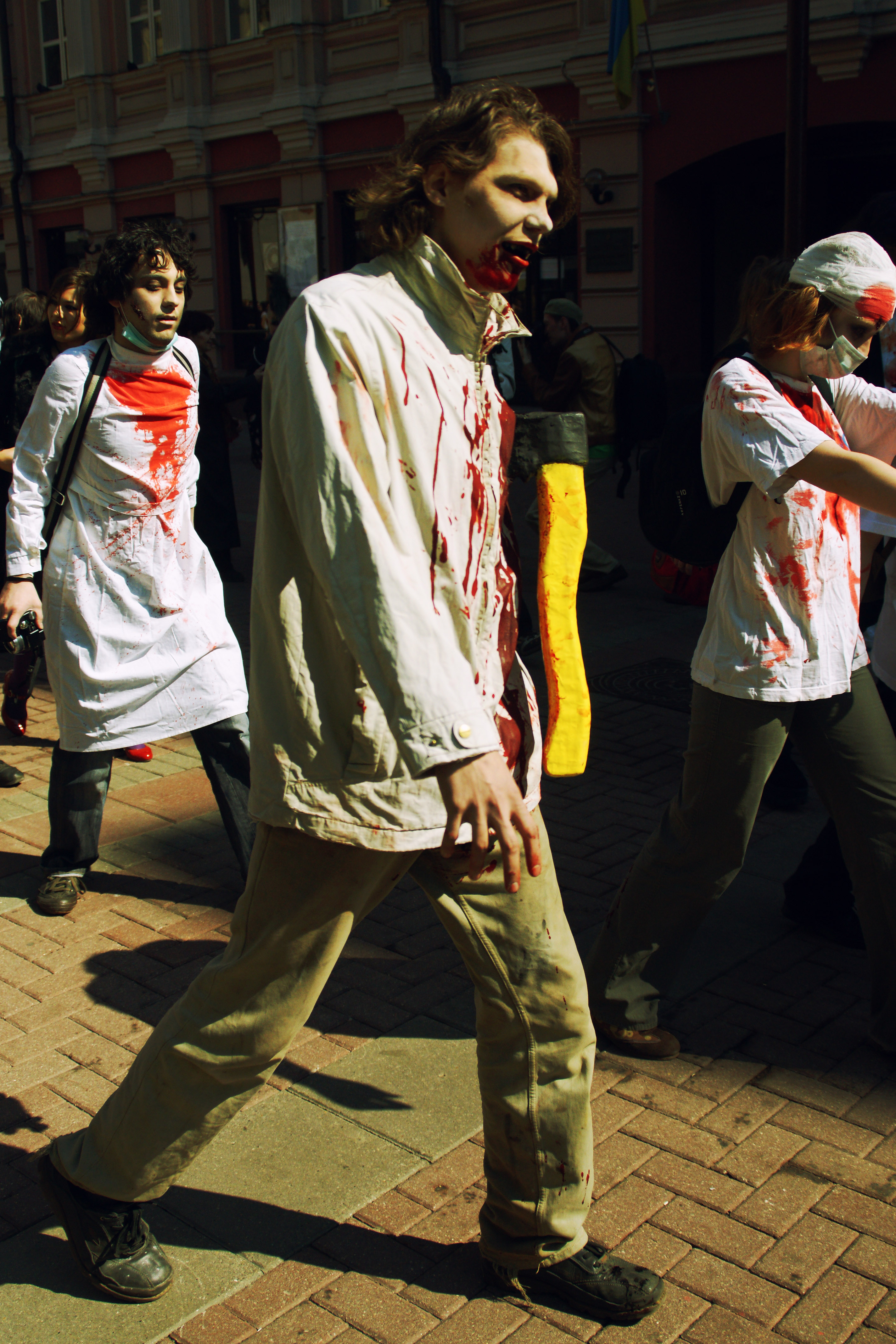 Zombies in Moscow